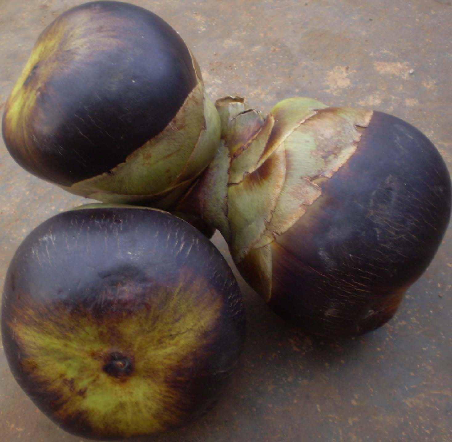 Fruits of Borassus flabelliferTiếng Việt: Quả thốt nốt